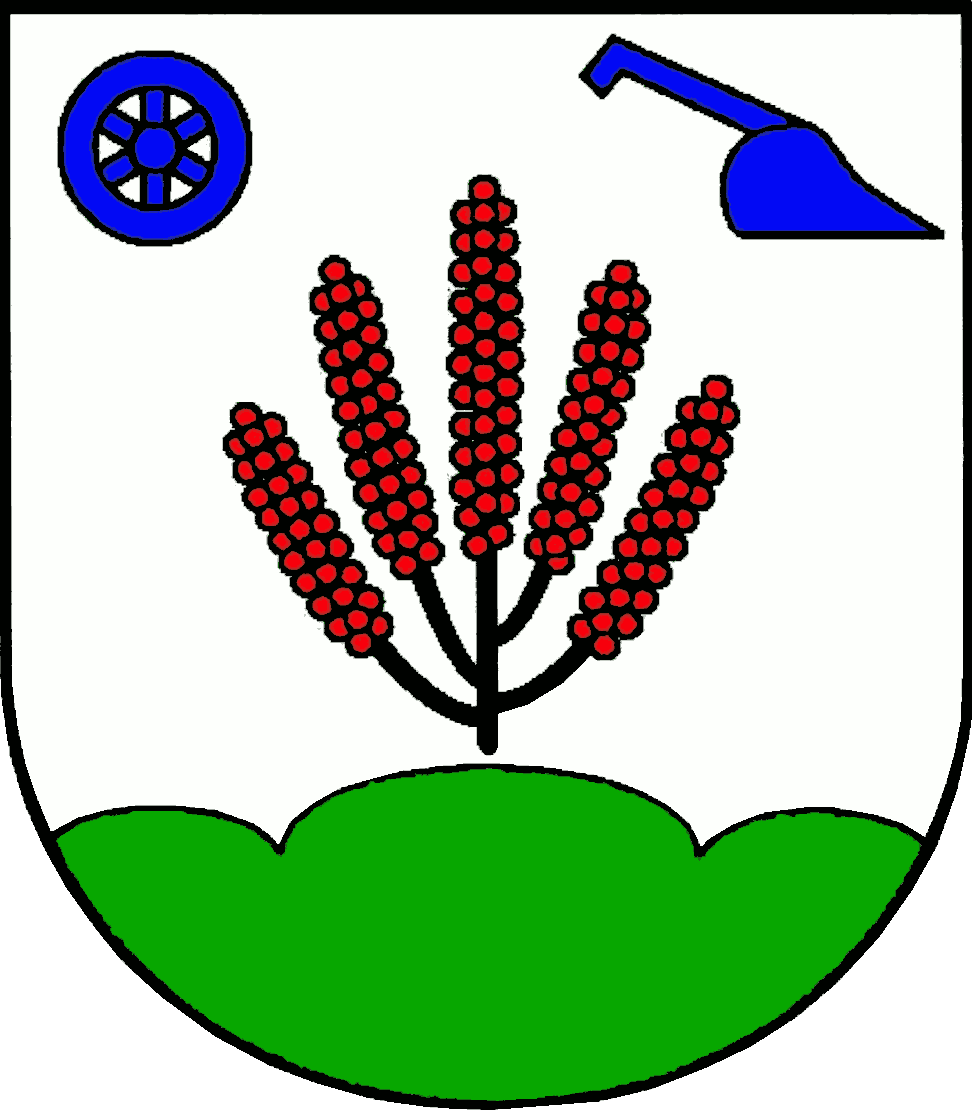 Coat of arms of the municipality Kremperheide in Schleswig-Holstein, Germany.